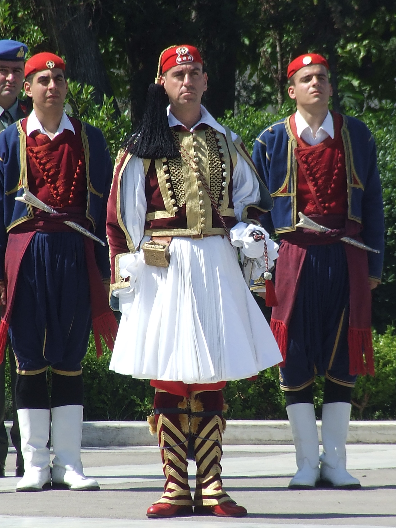 Presidential guards, Syntagma Square, Greece